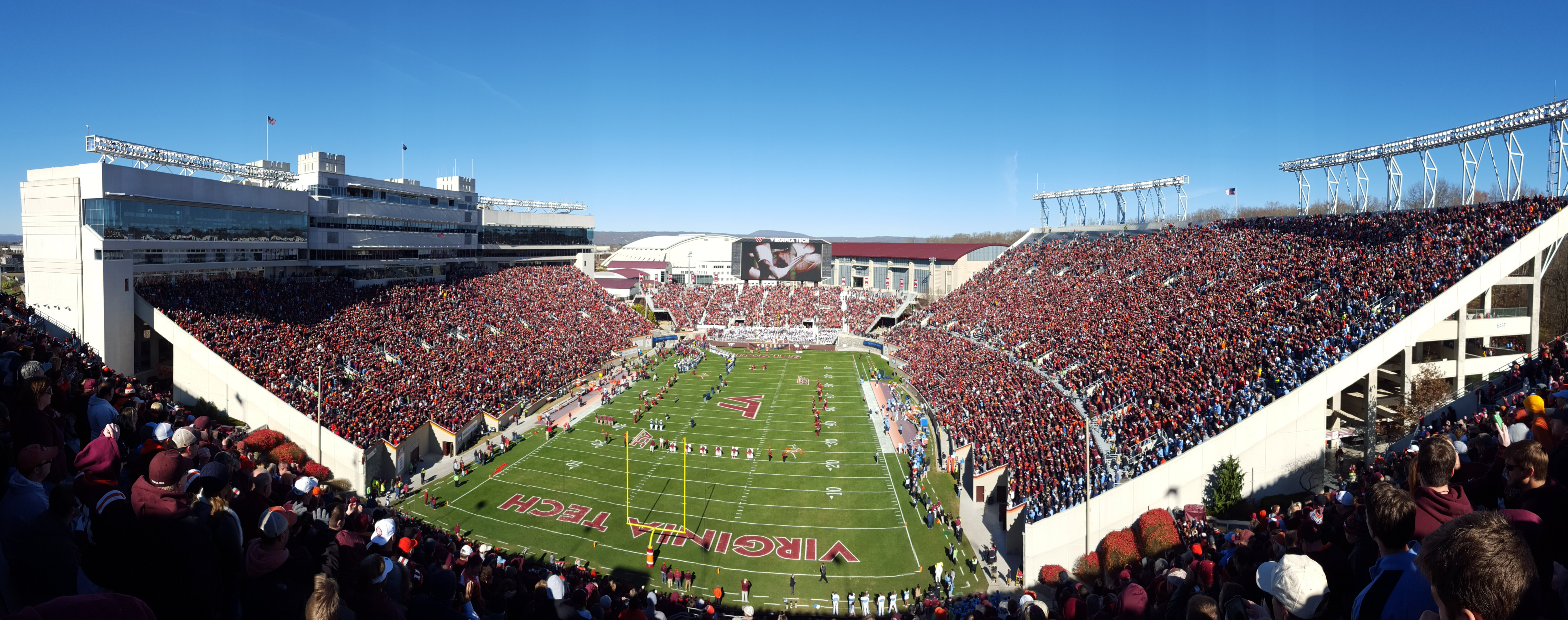 Lane Stadium panoramic just prior to the entrance for the 2015 North Carolina @ Virginia Tech football game. This was Frank Beamer's last home game as head coach.